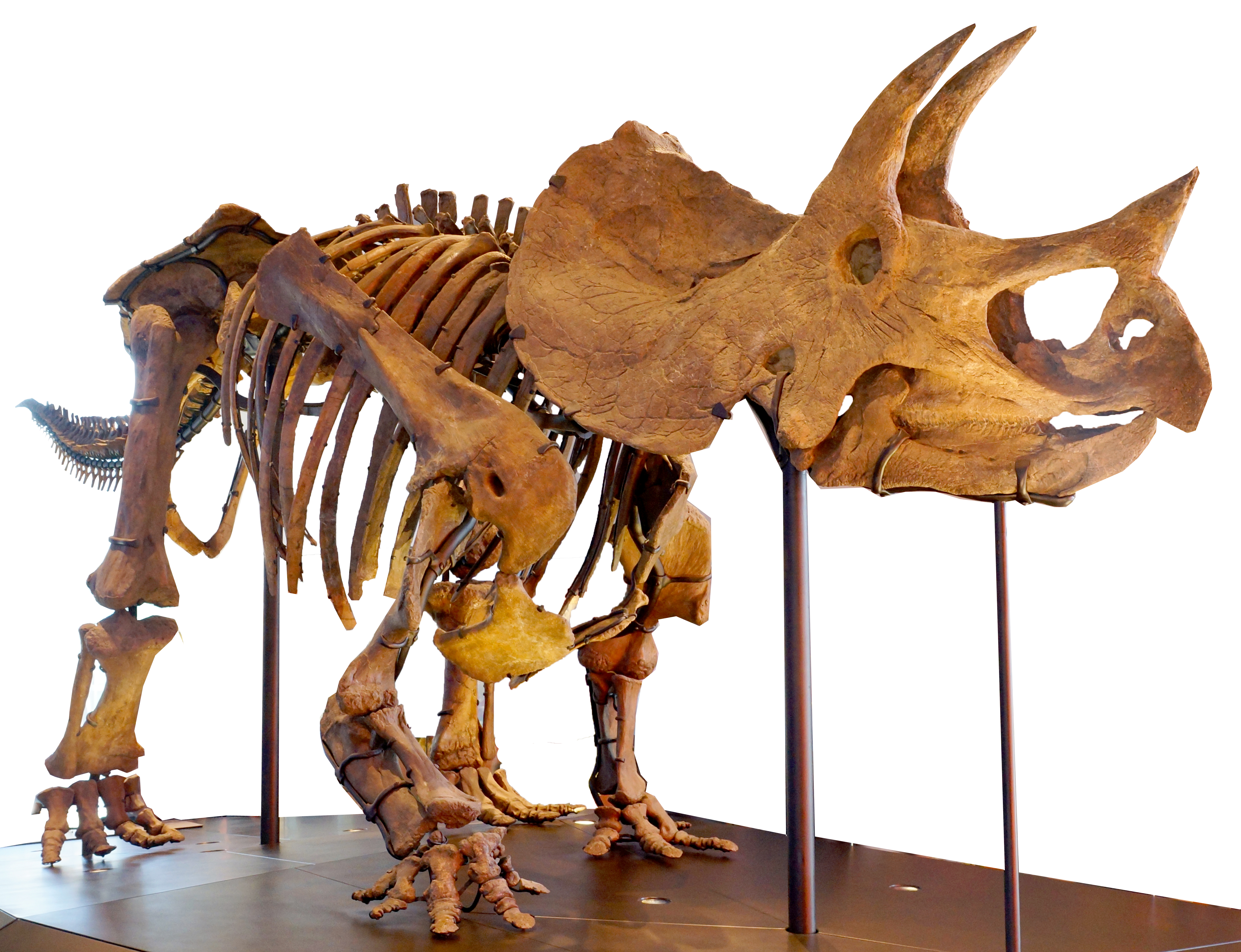 Skeleton of Triceratops at the Los Angeles County Natural History Museum